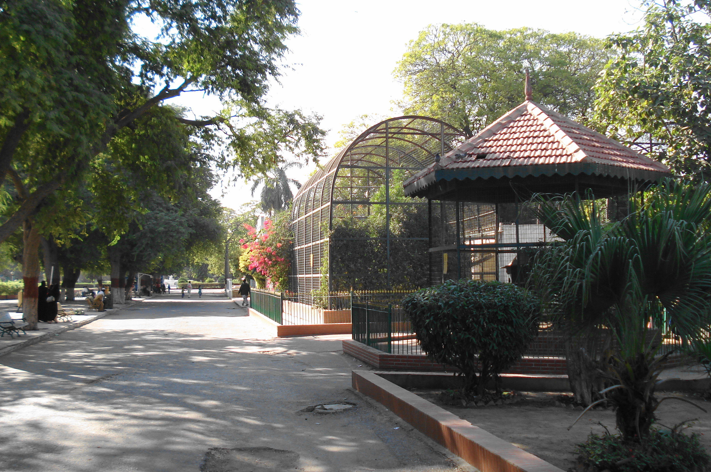 Karachi Zoo